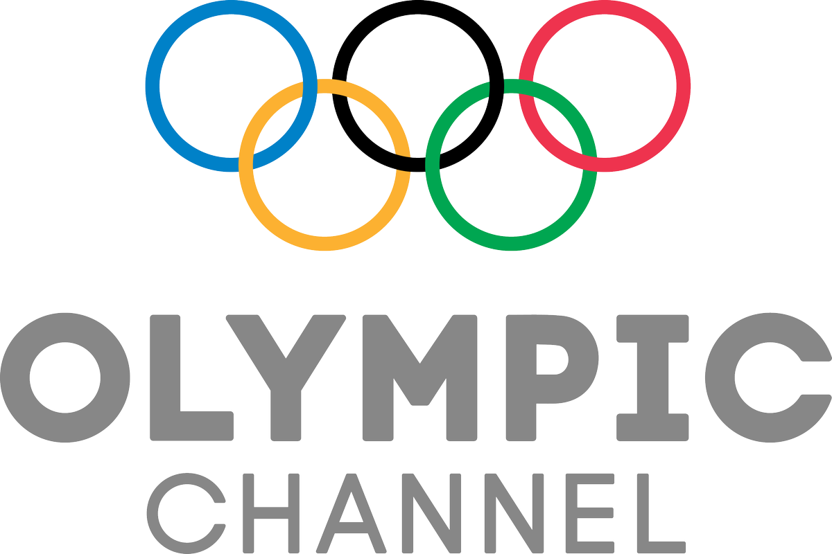 The logo for the Olympic Channel